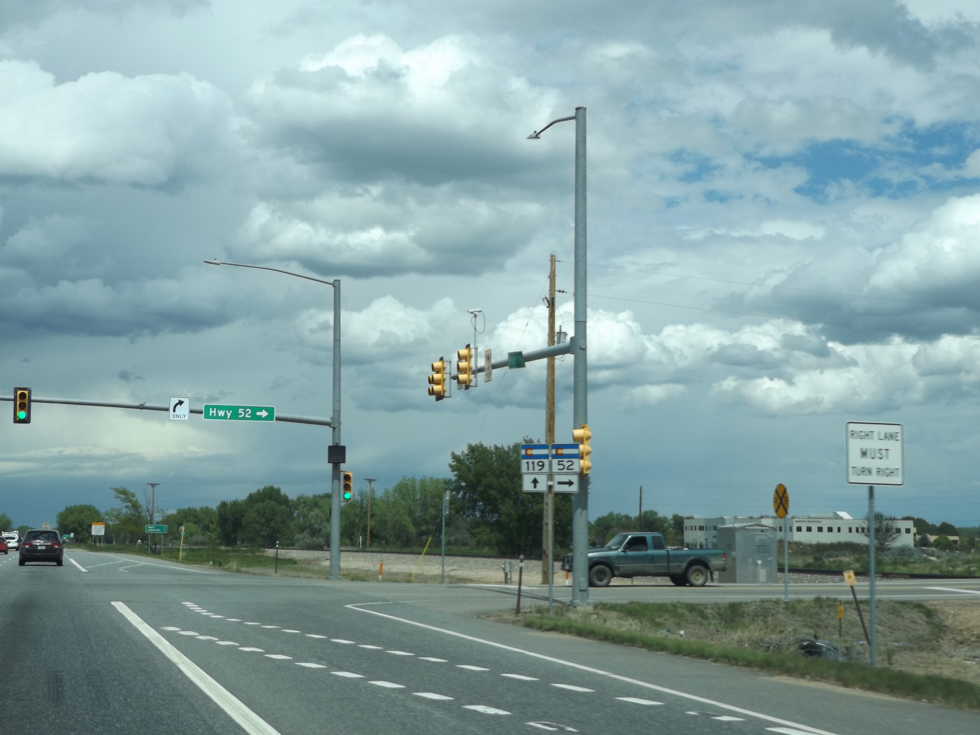 Colorado State Highway 119 at the junction with Colorado State Highway 52